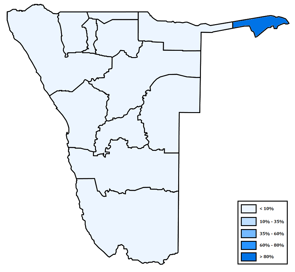 Distribution of Caprivi languages in Namibia per region